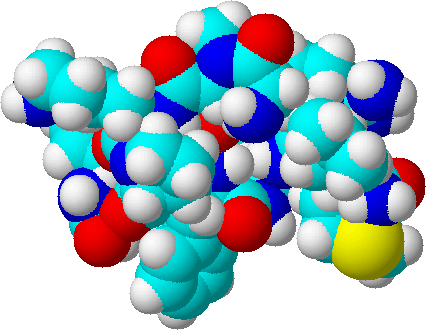 Spacefilling model of substance P. Created using ACD/ChemSketch 8.0, ACD/3D Viewer and The GIMP.